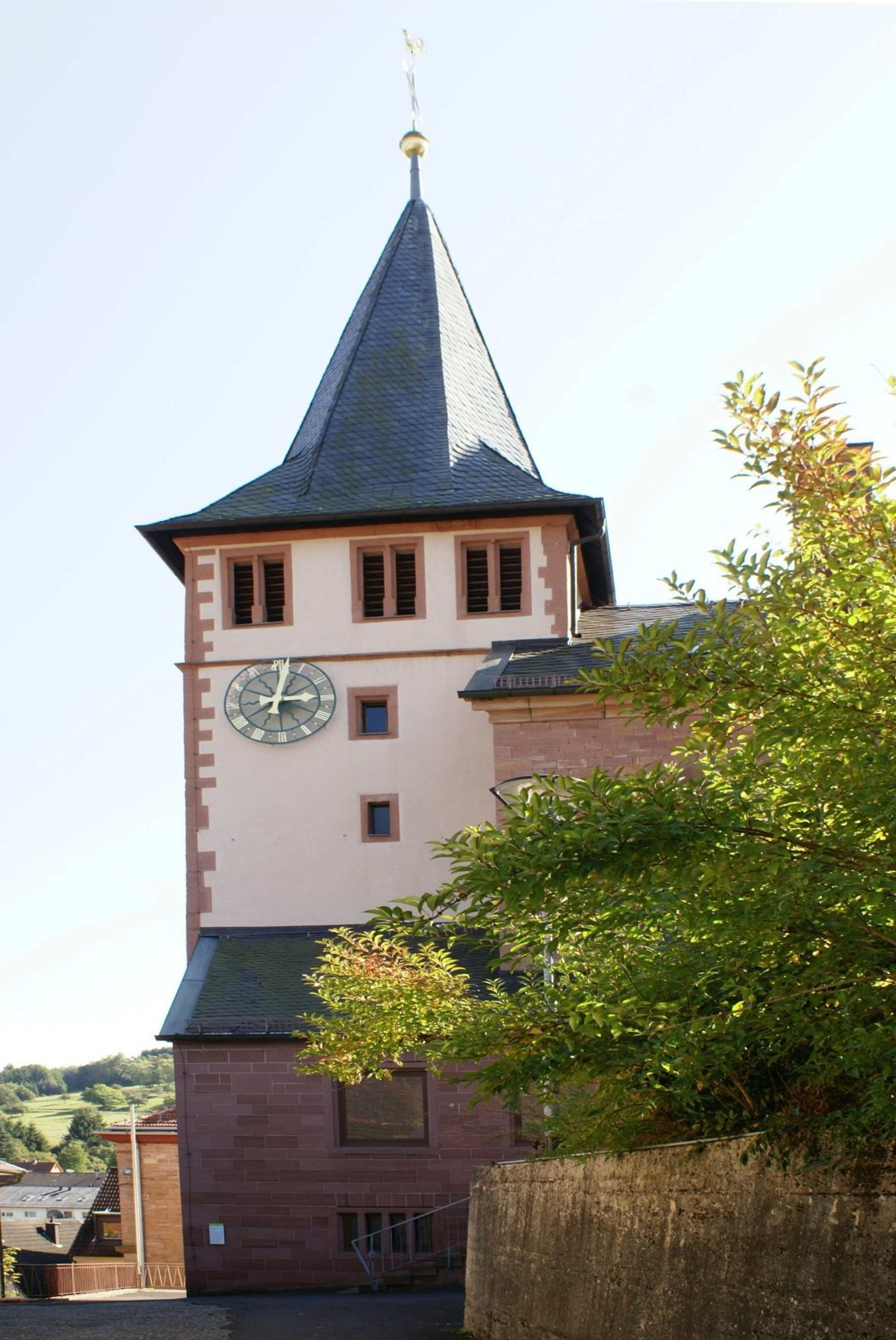 Belltower of the parish church St. Bartholomäus in Frammersbach